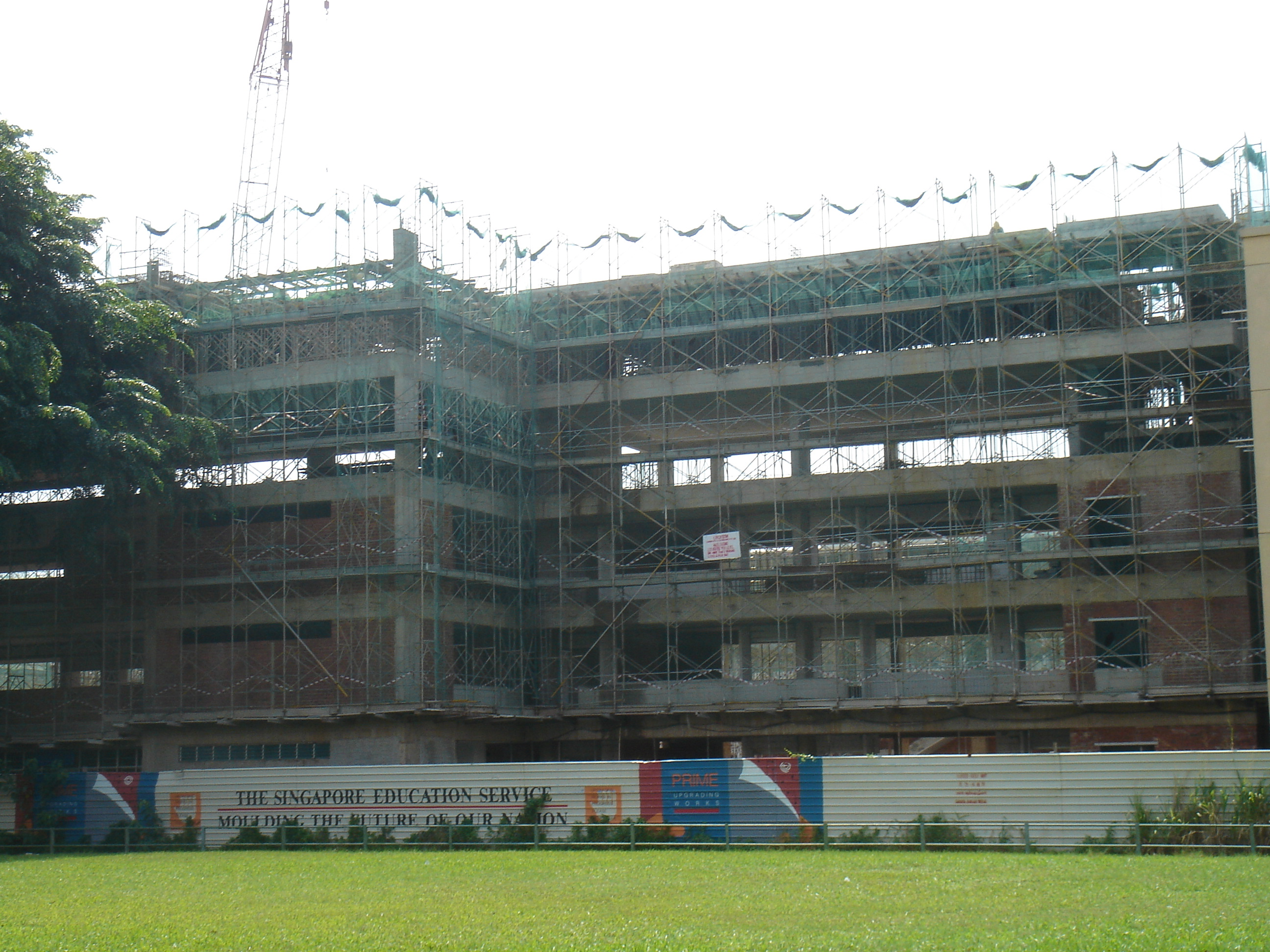 A new school building under construction, under the programme PRIME.